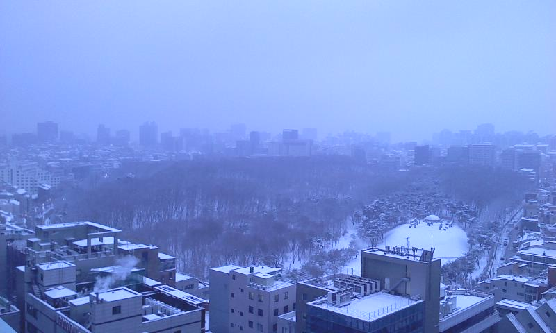 Panorama photo of Seonjeongneung